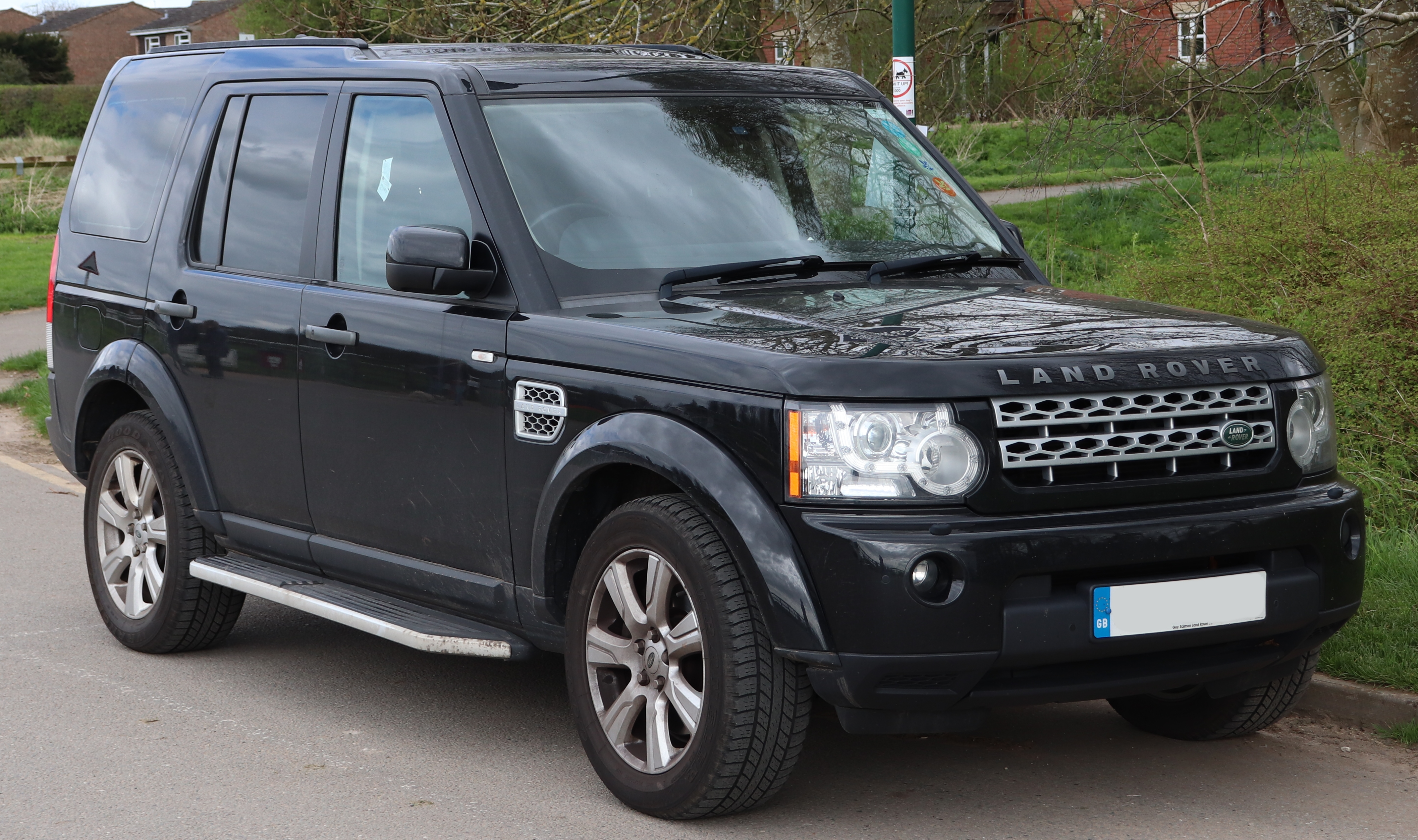 2012 Land Rover Discovery HSE SDV6 Automatic 3.0 Front Taken in Warwick